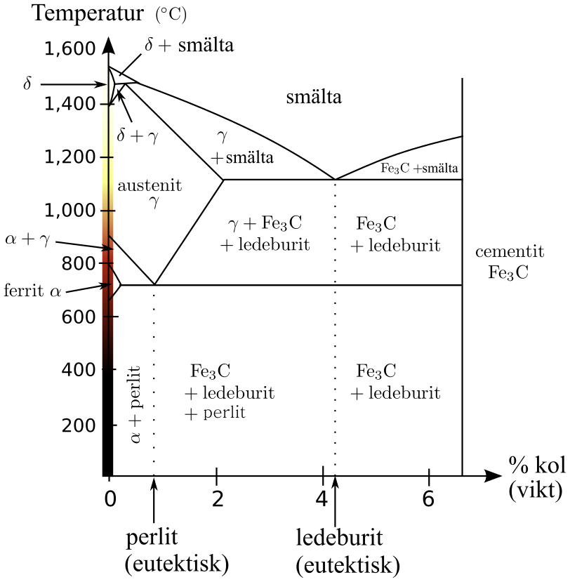 Steel composition